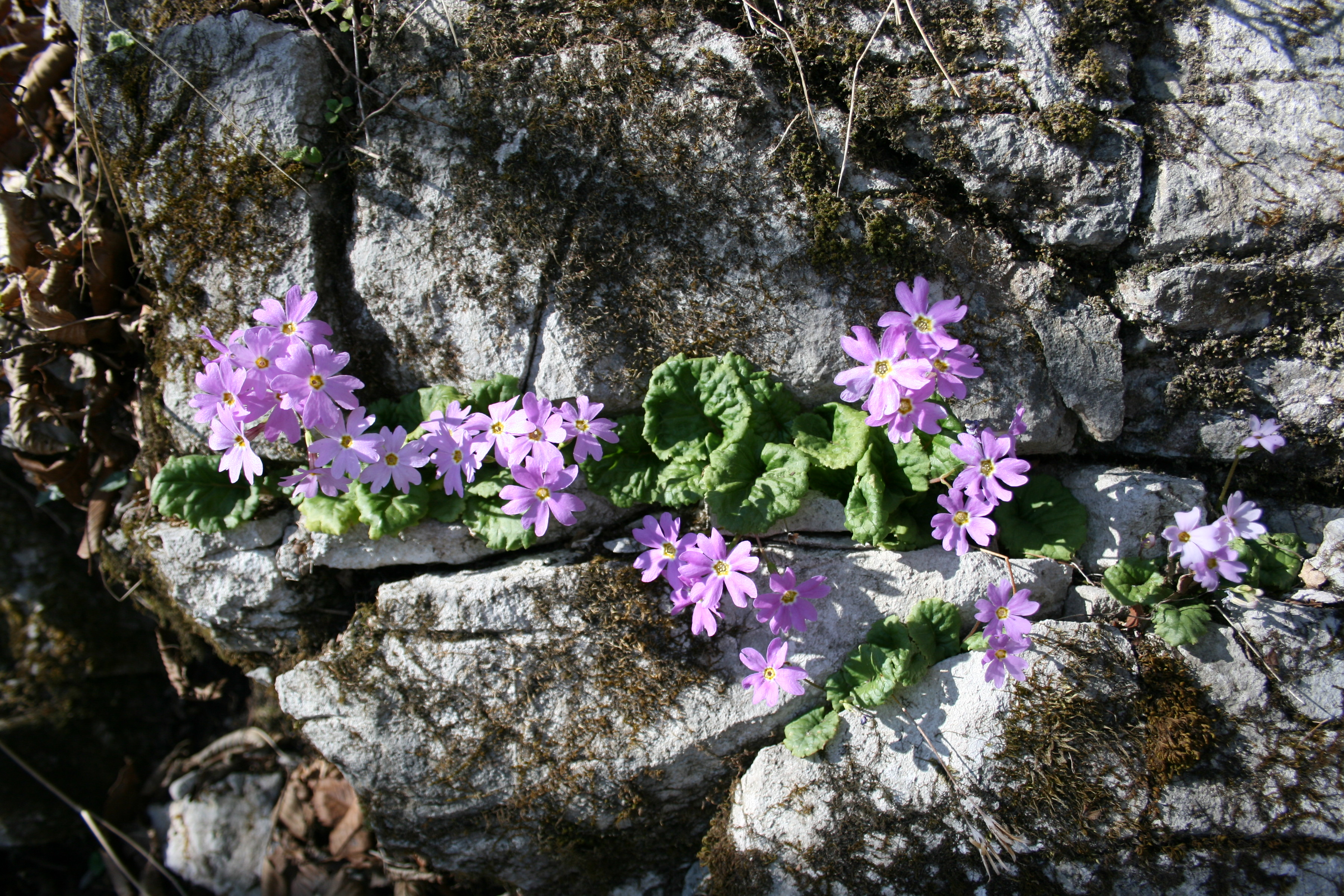 Primula tosaensis